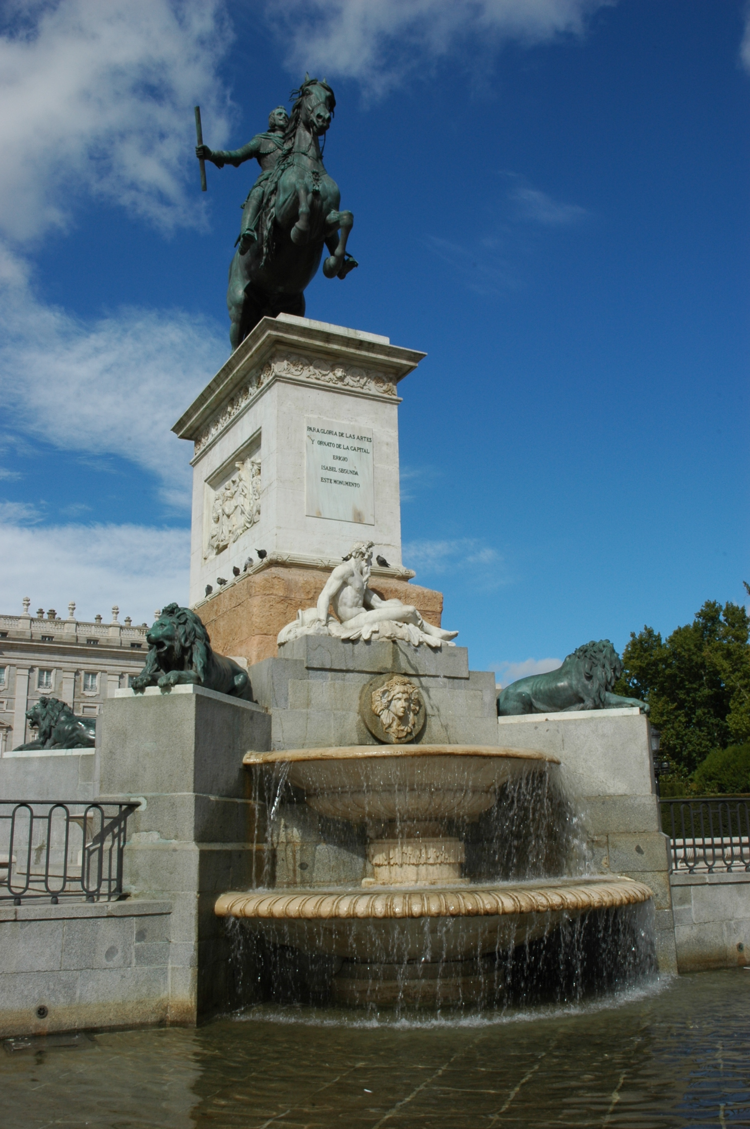 Partial view of the Monument to Philip IV of Spain at Plaza de Oriente (square) in Madrid (Spain). Unveiled in 1843.